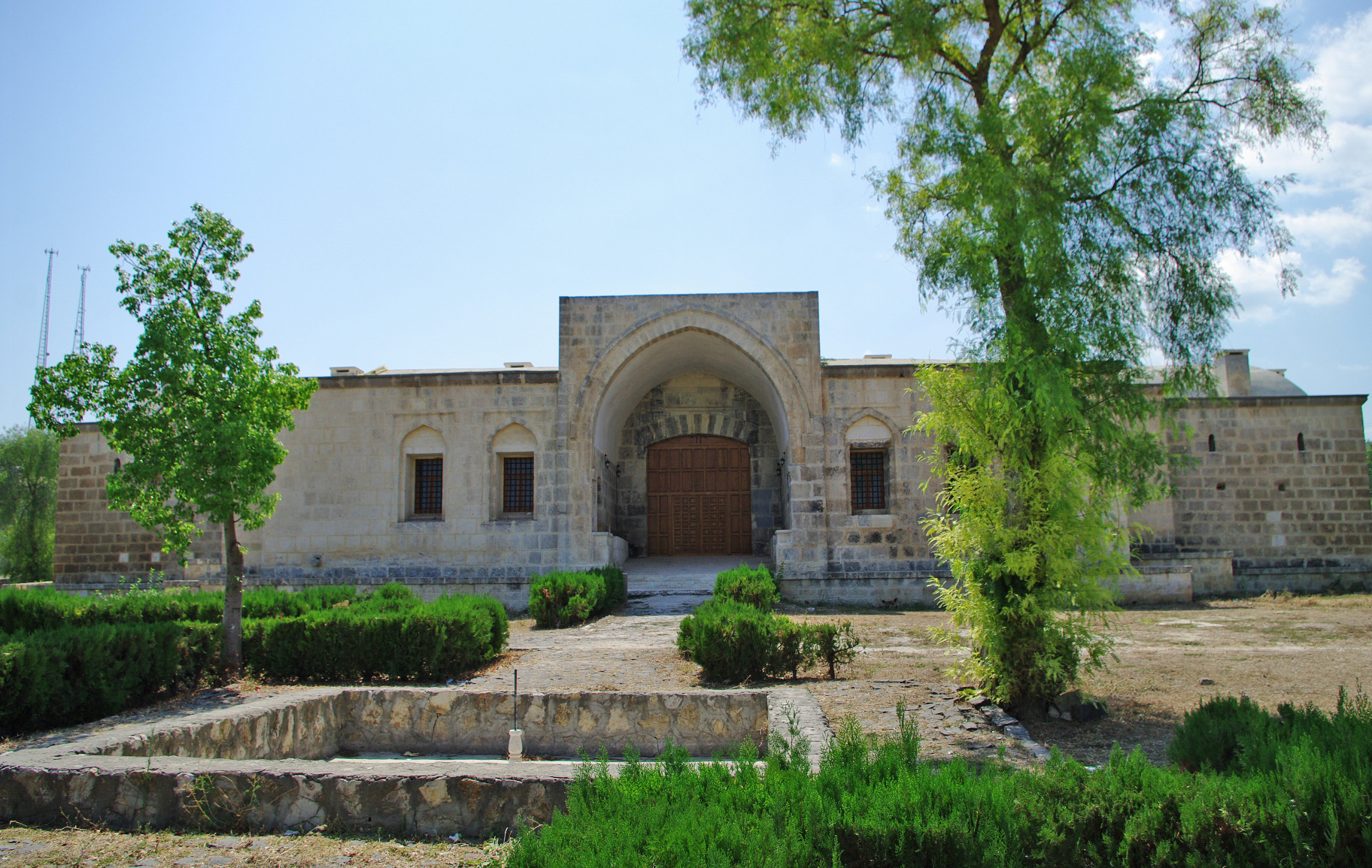 Kurtkulağı Caravanserai is an Ottoman caravanserai, built in 1659. Kurtkulağı, Ceyhan, Adana - Turkey